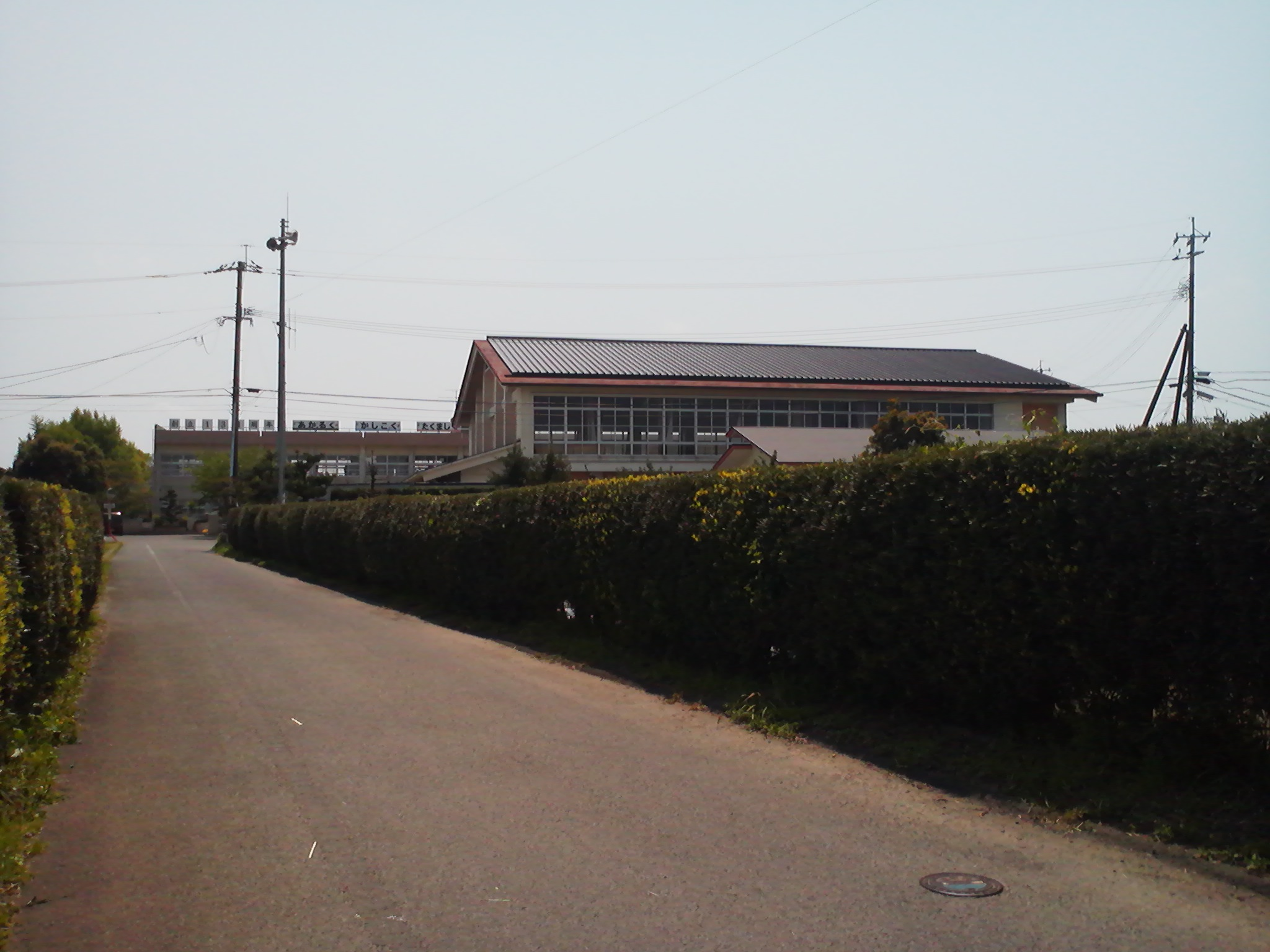 Ishitani Elementary School in Kagoshima, Kagoshima